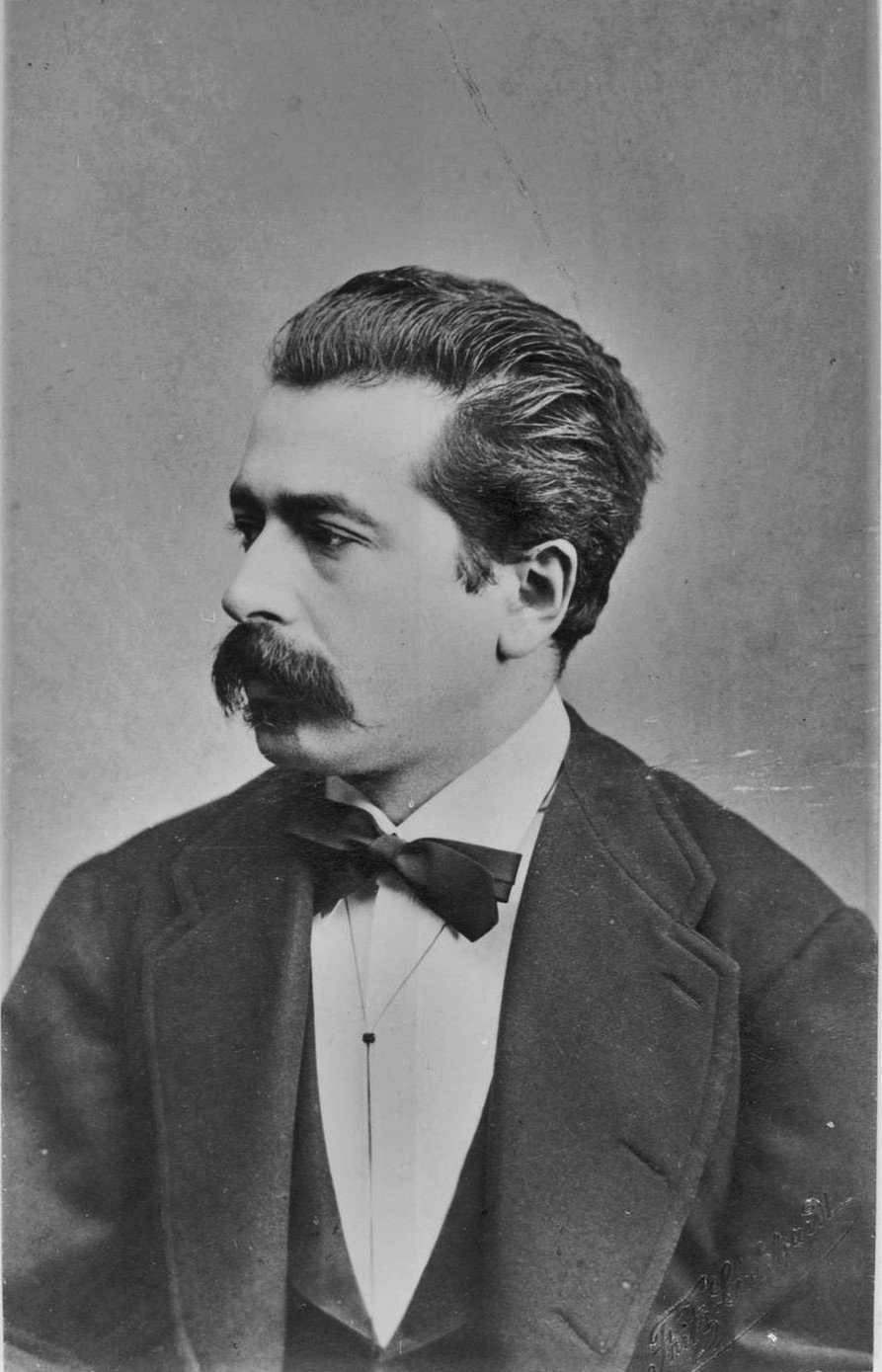 Henryk Wieniawski ( July 10, 1835 Lublin, Congress Poland, Russian Empire - March 31, 1880 Moscow) was a Polish composer and violinist.